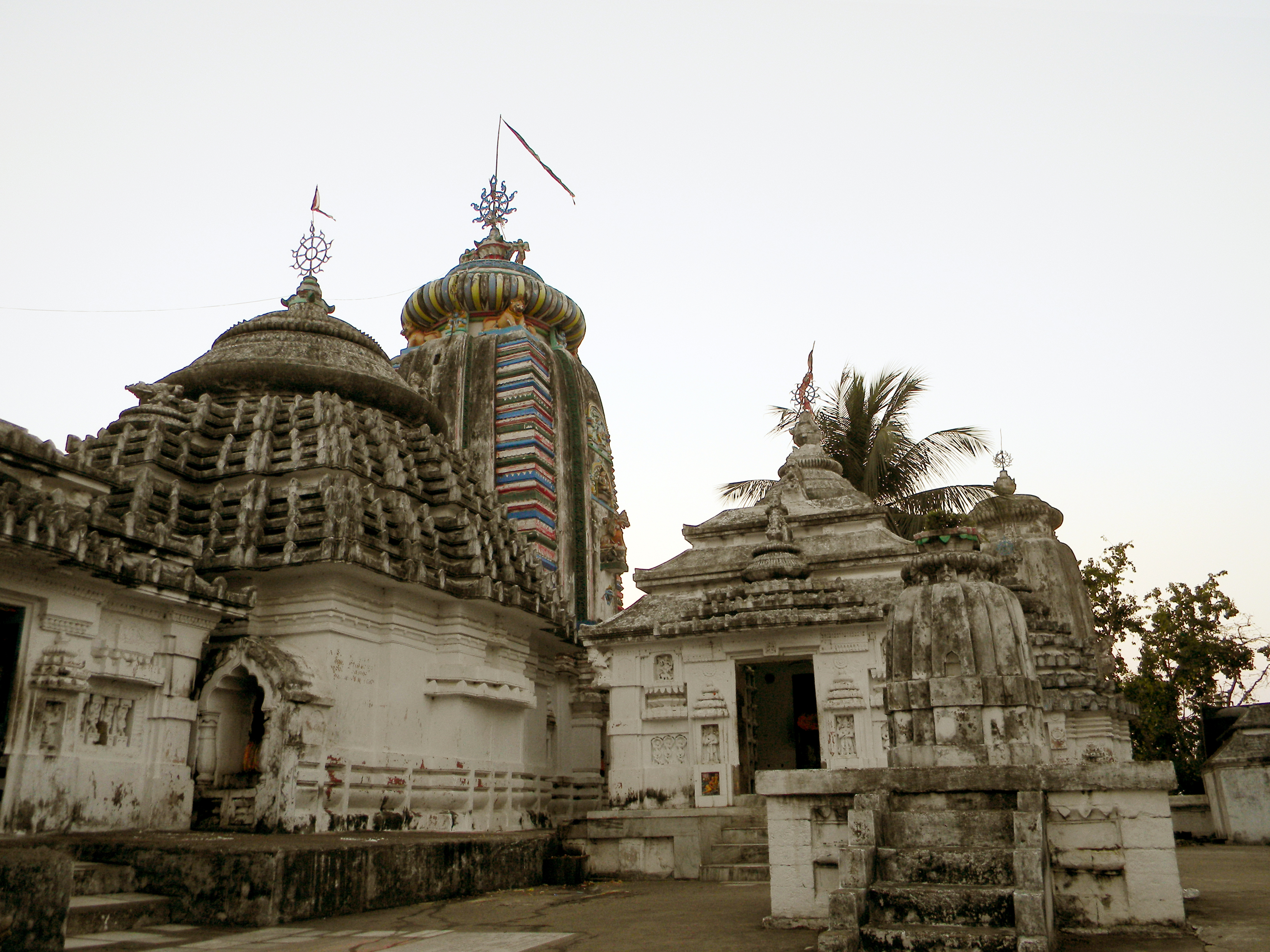 Lord Nilamadhaba Temple, Kantilo, Nayagarh, Odisha ଓଡ଼ିଆ: ନୀଳ ମାଧବ ମନ୍ଦିର, କଣ୍ଟିଲୋ, ନୟାଗଡ, ଓଡିଶା This media file is uploaded with Odia loves Wikipedia English |italiano |македонски |മലയാളം |ଓଡ଼ିଆ +/−